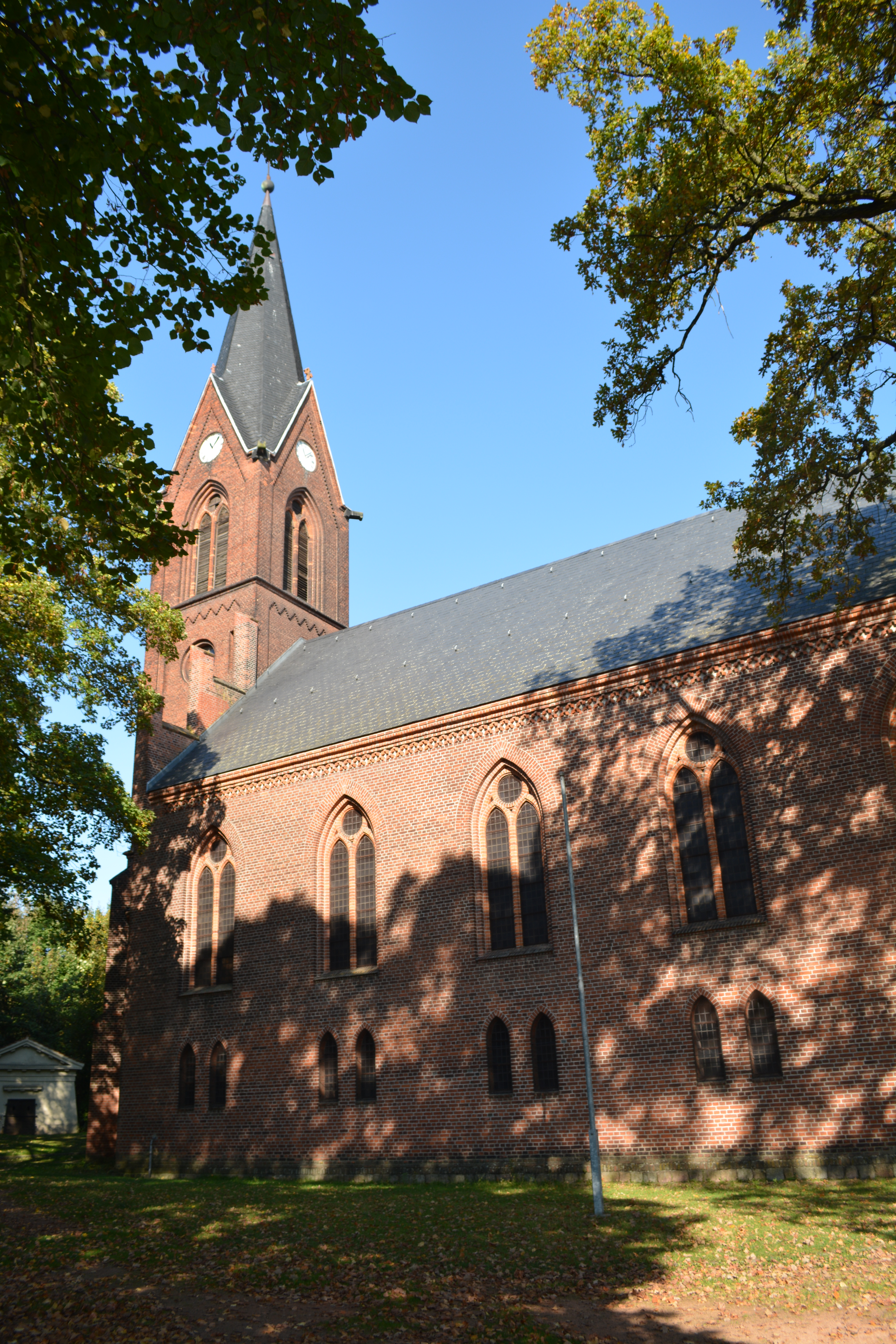 St.Michael church, Werneuchen municipality, Barnim district, Brandenburg state, Germany Object location52° 37′ 54.9″ N, 13° 43′ 54.5″ E